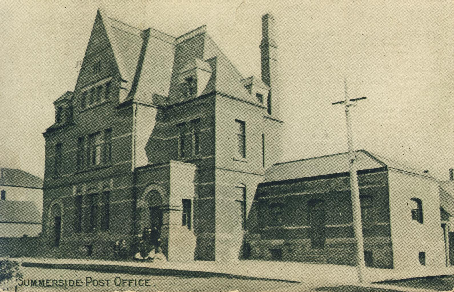 A postcard of the post office in Summerside, Prince Edward Island, circa 1905. A stone post office with Gothic and Romanesque elements; representative of the small urban post offices erected by the Department of Public Works in smaller urban centres during Thomas Fuller's term as Chief Architect.